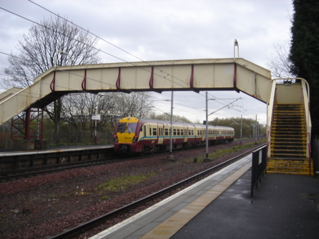 Hillington East railway station, Glasgow, Scotland. Looking east towards Cardonald.